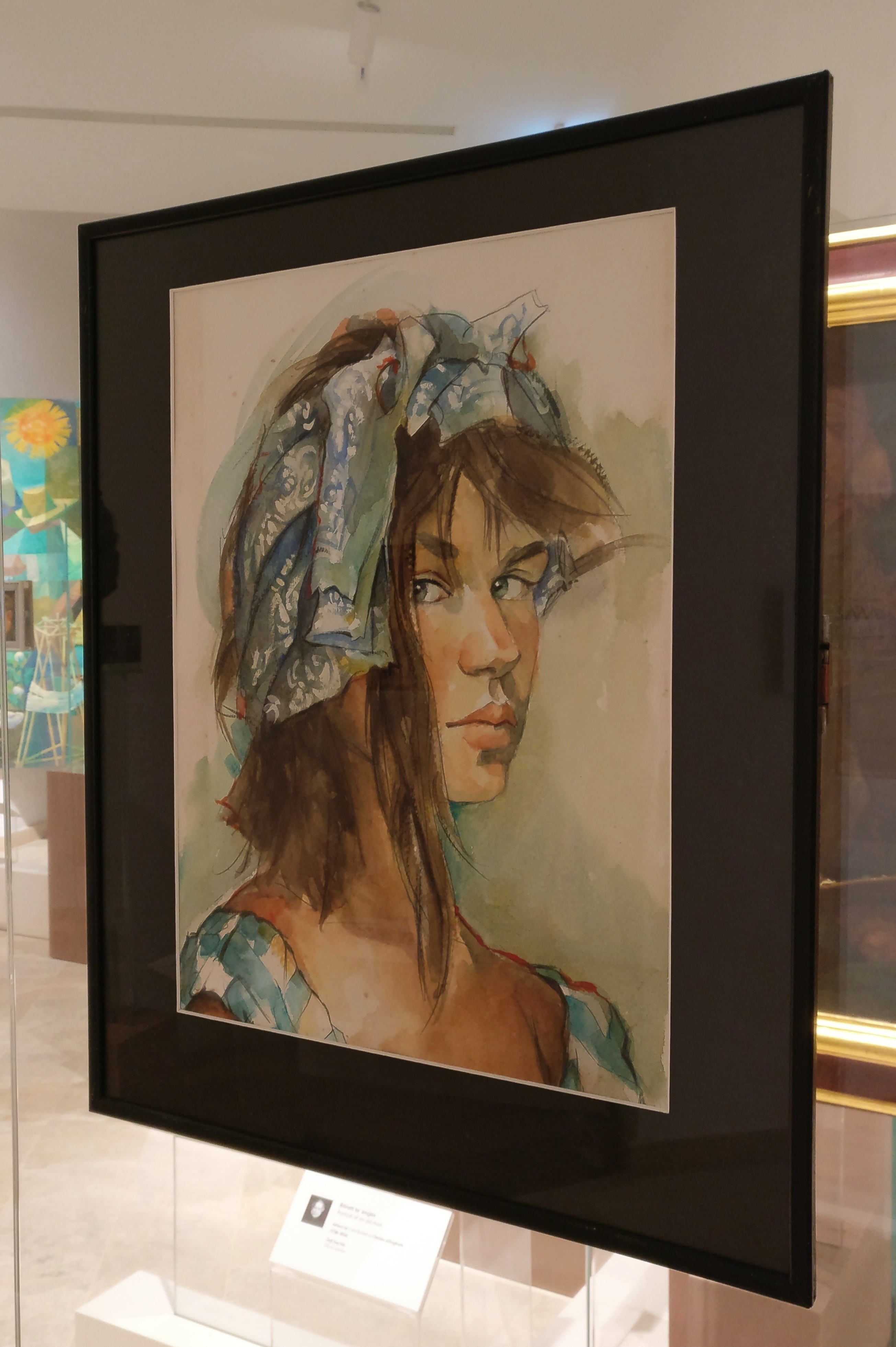 On display at MUZA in Valletta, Malta